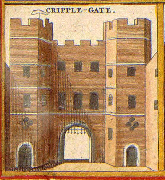 "Cripple-gate", a crop of a 1690 map of London with boxed illustrations of the gates of below plan of city (full map).